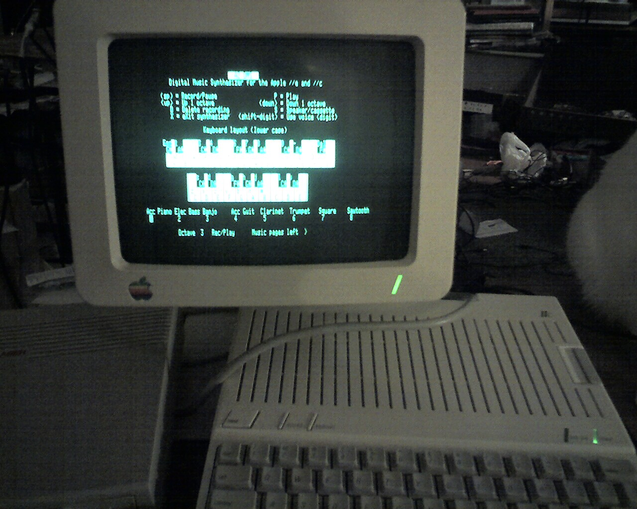 This may figure into my bela dubby performance on Friday.